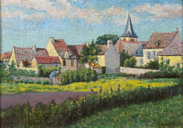 Vue de Guermantes